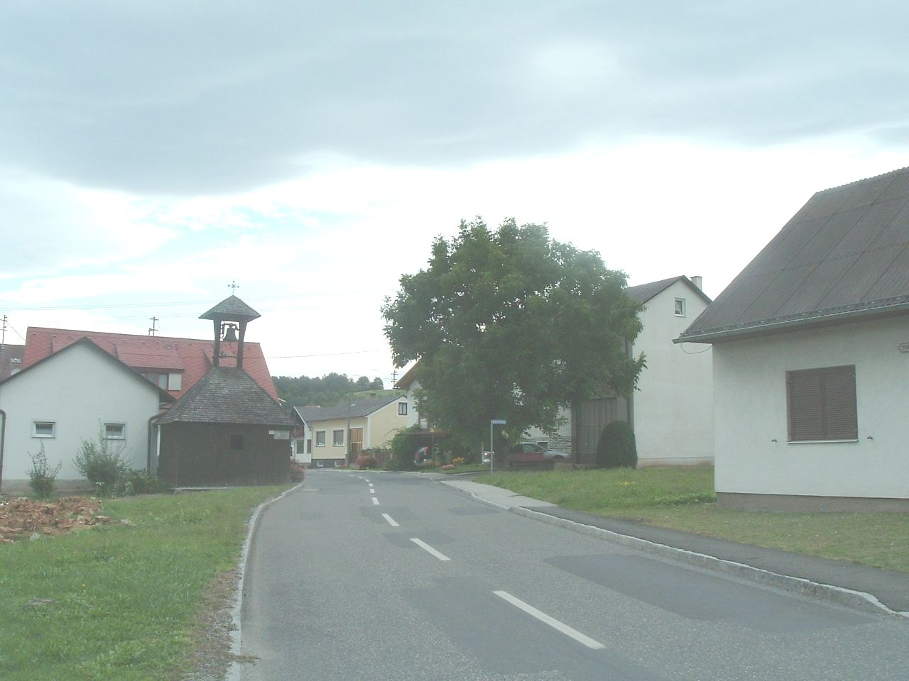 Kleinbachselten (Kiskarasztos), Burgenland